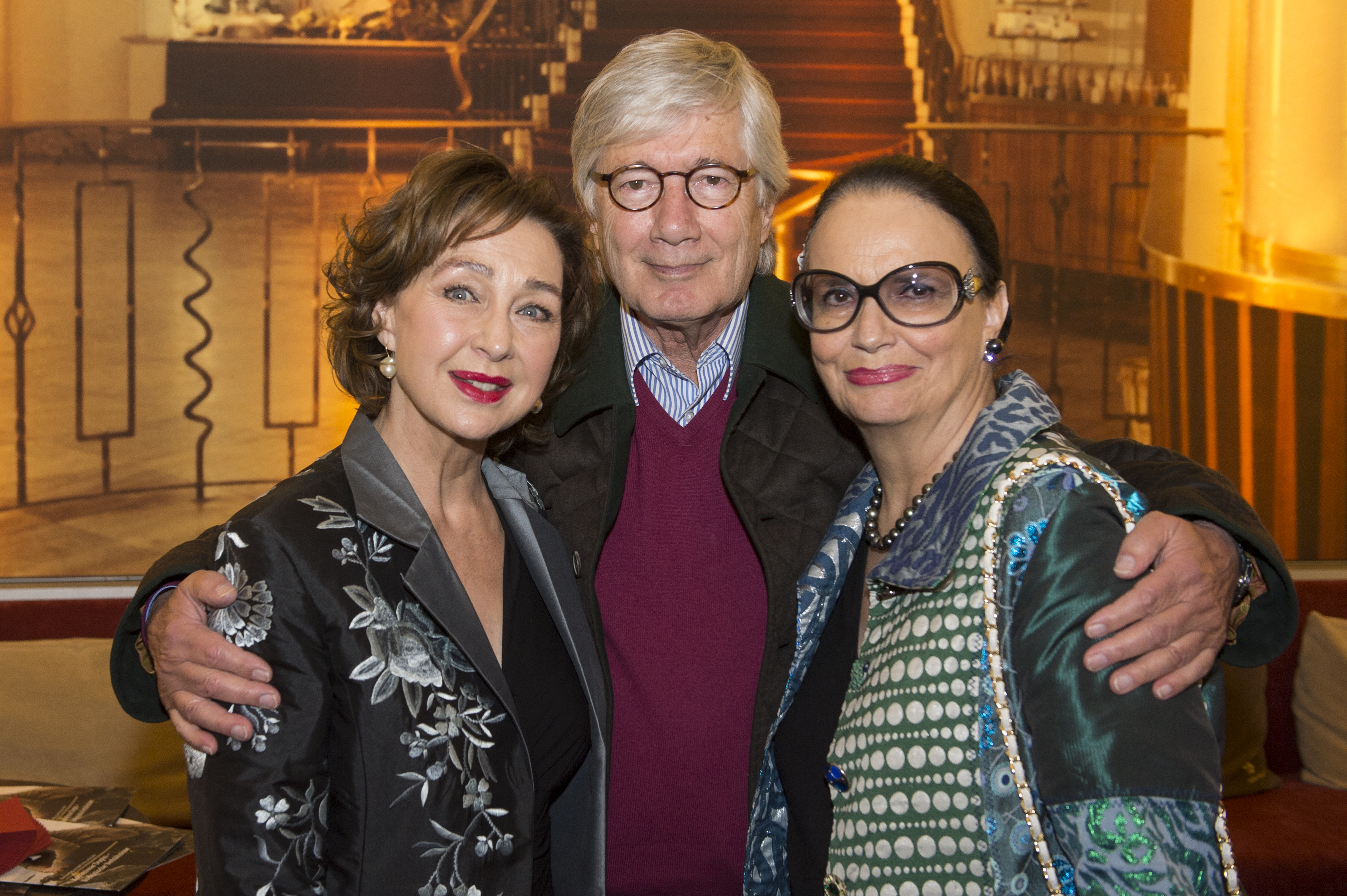 Bretonische Verhältnisse Premiere am 16.04.2014 in München Christine Kaufmann, Christian Wolff, Marina Handloser?